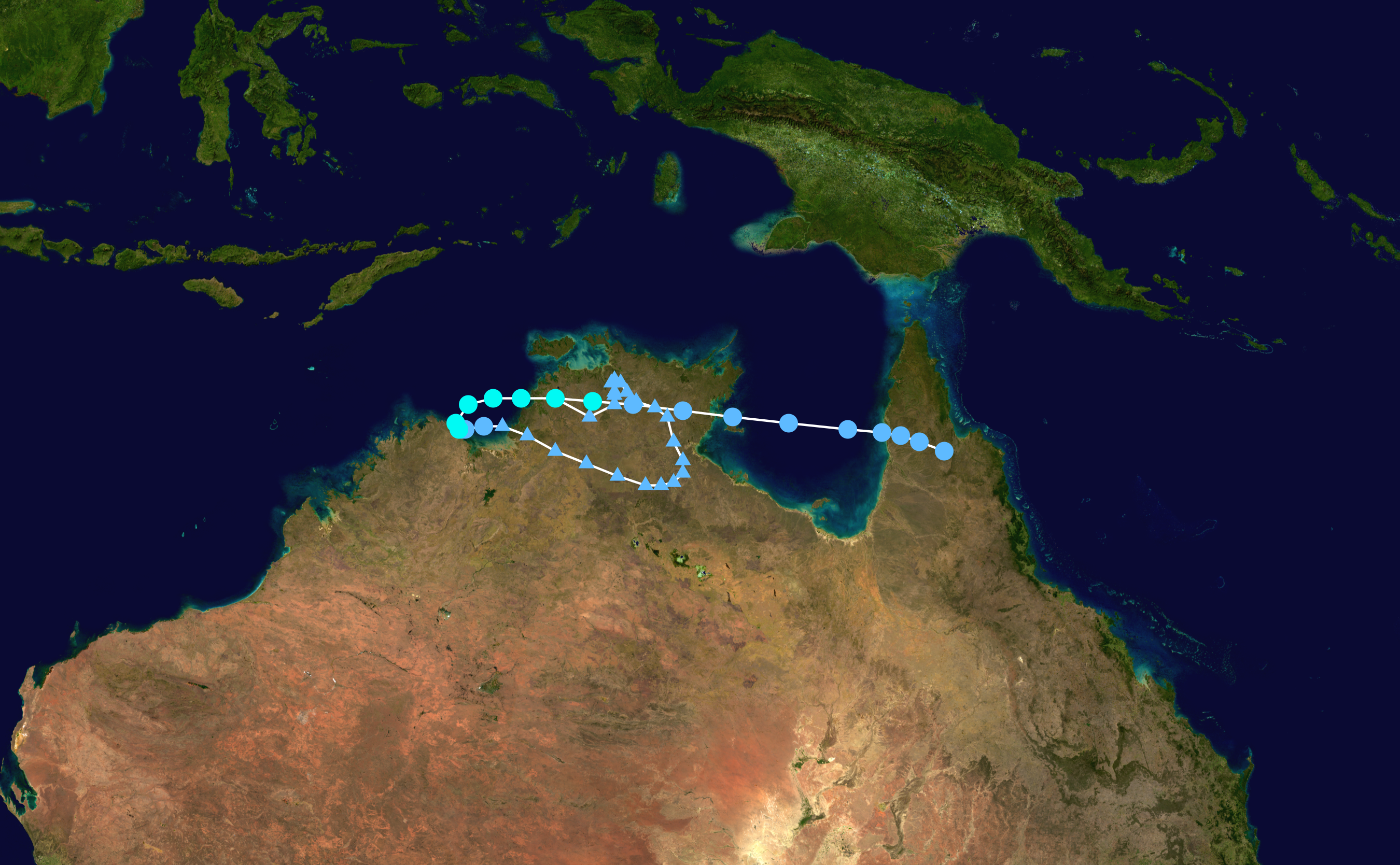 Track map of Tropical Cyclone Helen of the 2007-08 Australian region cyclone season. The points show the location of the storm at 6-hour intervals. The colour represents the storm's maximum sustained wind speeds as classified in the Saffir–Simpson scale (see below), and the shape of the data points represent the nature of the storm, according to the legend below. Saffir–Simpson scale Tropical depression≤38 mph≤62 km/h Category 3111–129 mph178–208 km/h Tropical storm39–73 mph63–118 km/h Category 4130–156 mph209–251 km/h Category 174–95 mph119–153 km/h Category 5≥157 mph≥252 km/h Category 296–110 mph154–177 km/h Unknown Storm type Tropical cyclone Subtropical cyclone Extratropical cyclone / Remnant low / Tropical disturbance / Monsoon depression